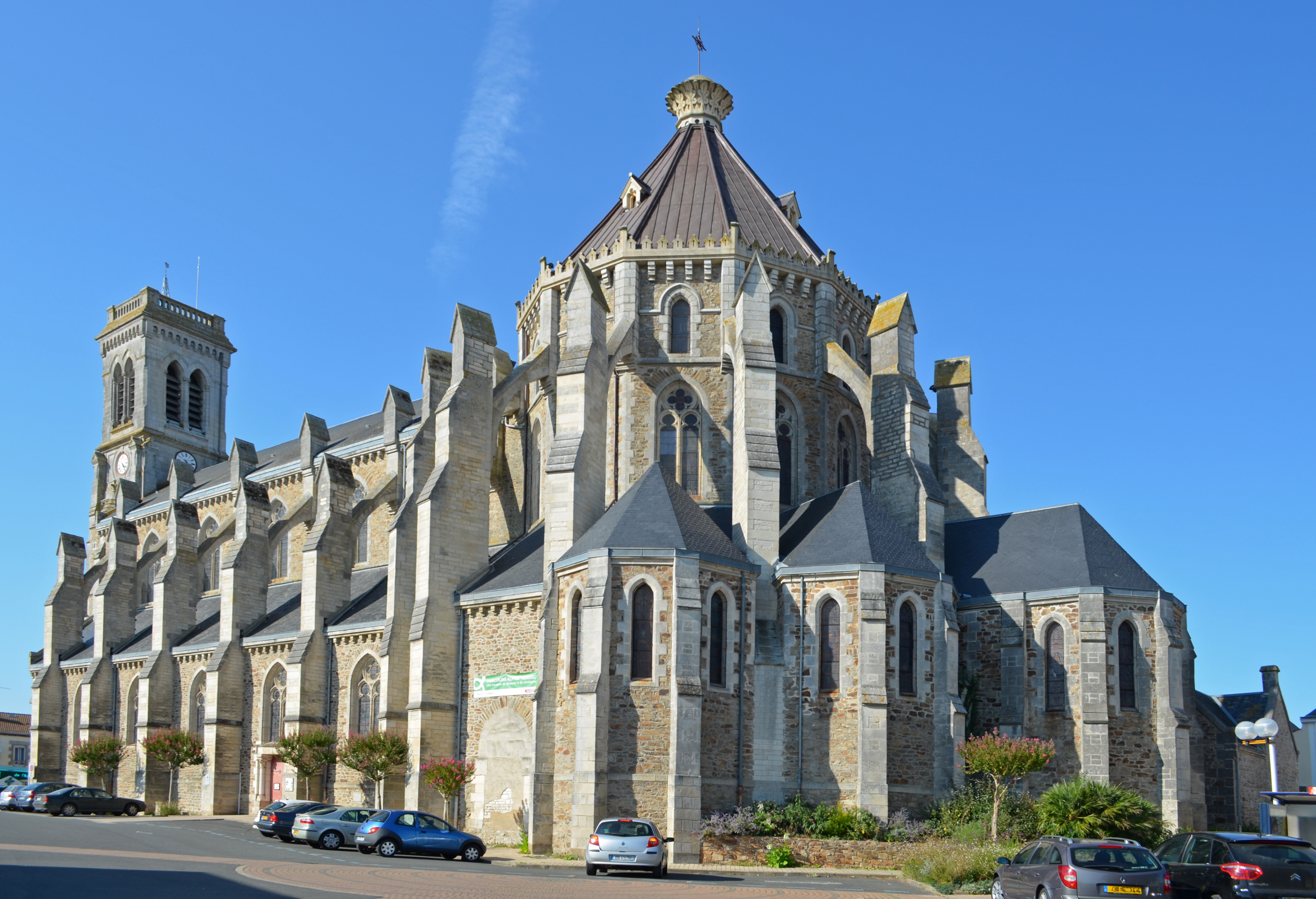 Saint-Benoît church, built from 1904 to 1905 by architect Alcide Boutaud - Aizenay (Vendée, France) .